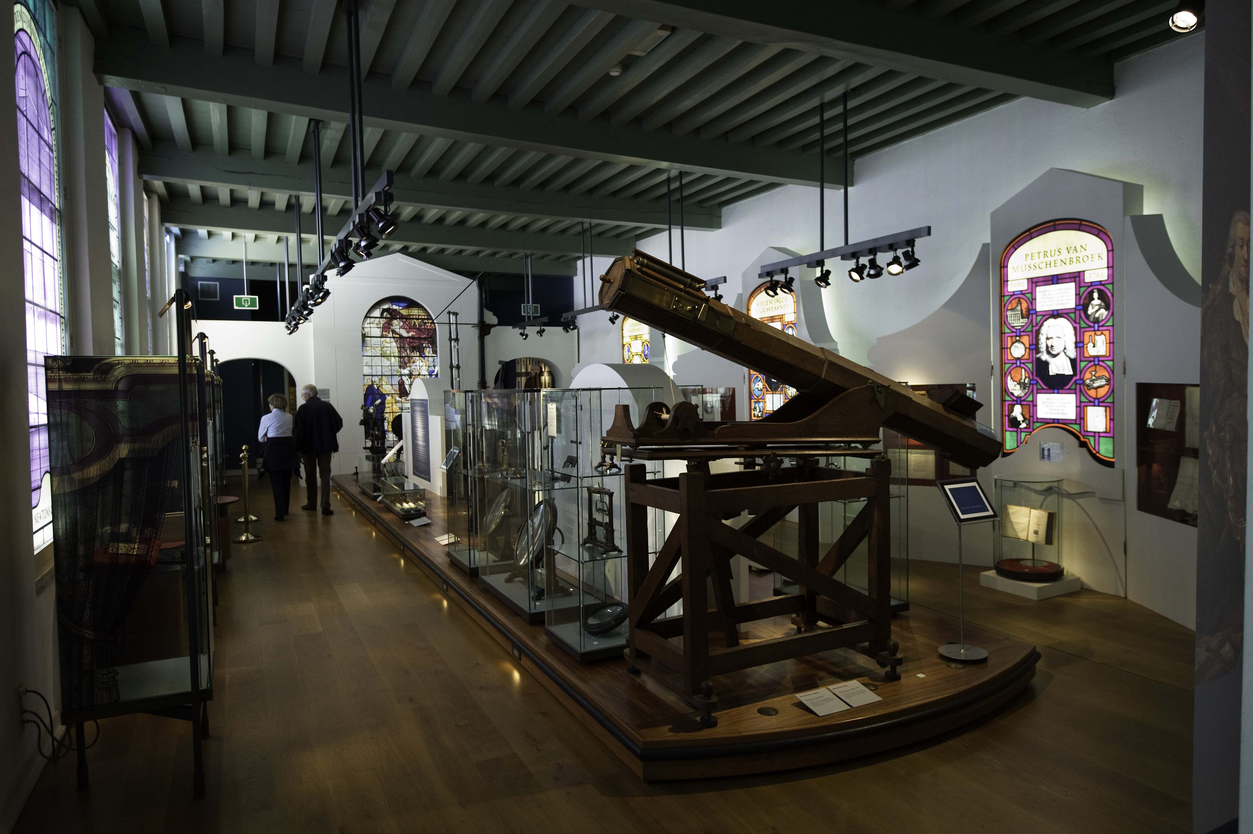 Museum Boerhaave walk-through